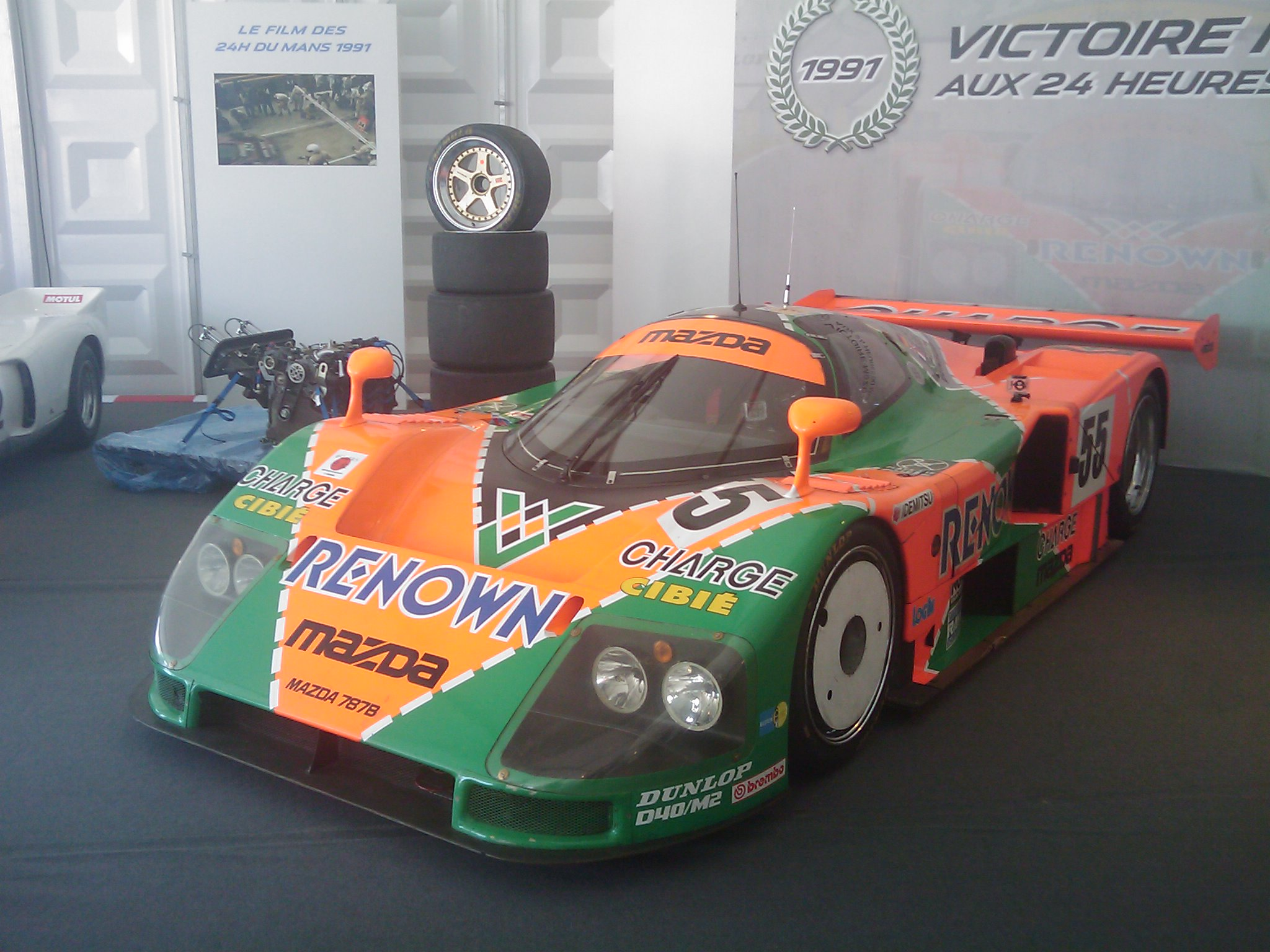 Mazda 787B Le Mans Racing car as seen on display at Le Mans 2011